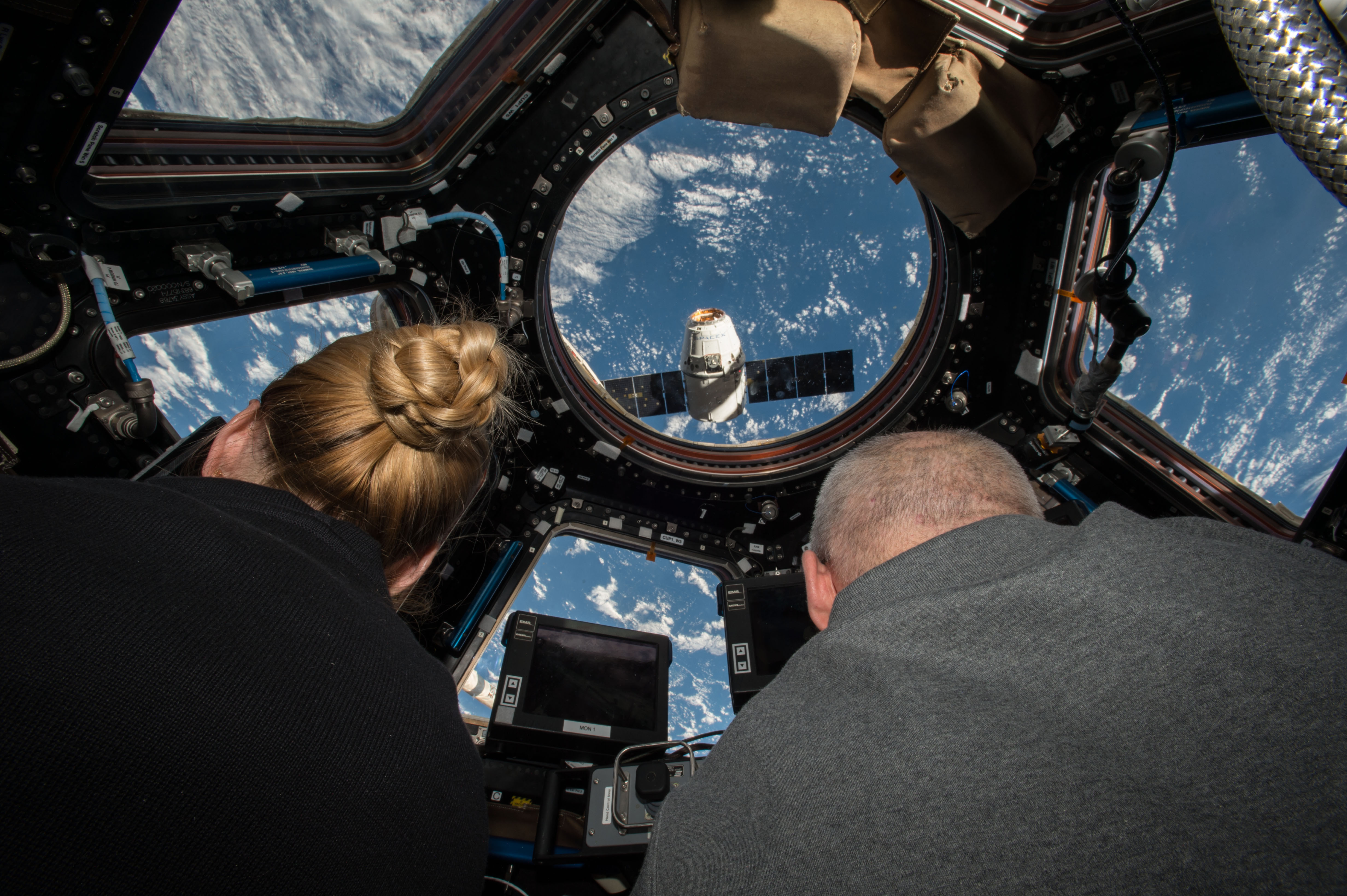 NASA astronauts Kate Rubins (left) and Jeff Williams (right) prepare to grapple the SpaceX Dragon supply spacecraft from aboard the International Space Station. The nearly 5,000 pounds of supplies and equipment includes science supplies and hardware, including instruments to perform the first-ever DNA sequencing in space, and the first of two identical international docking adapters (IDA.) The IDAs will provide a means for commercial crew spacecraft to dock to the station in the near future as part of NASA's Commercial Crew Program. Dragon is scheduled to depart the space station Aug. 29 when it will return critical science research back to Earth.